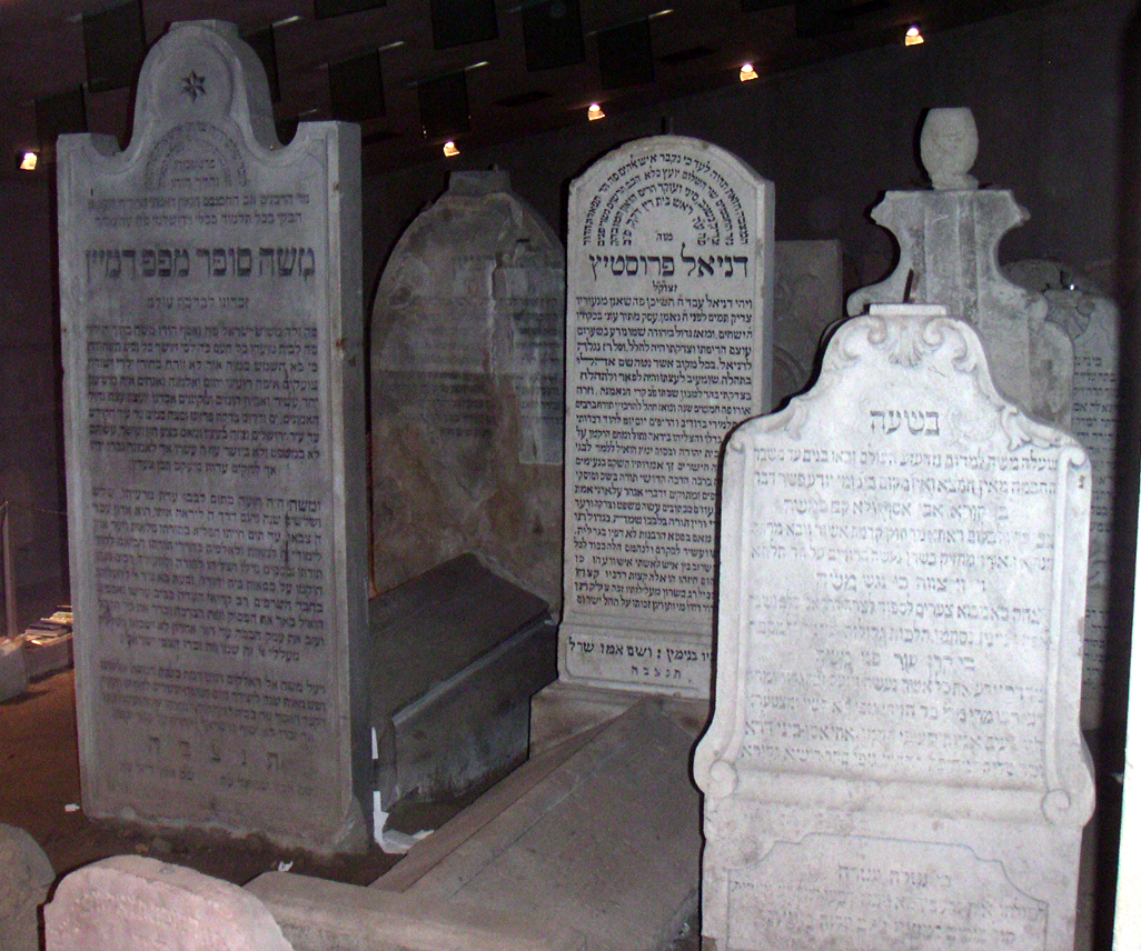 Mausoleun of Rabbi Moses Sofer and family.